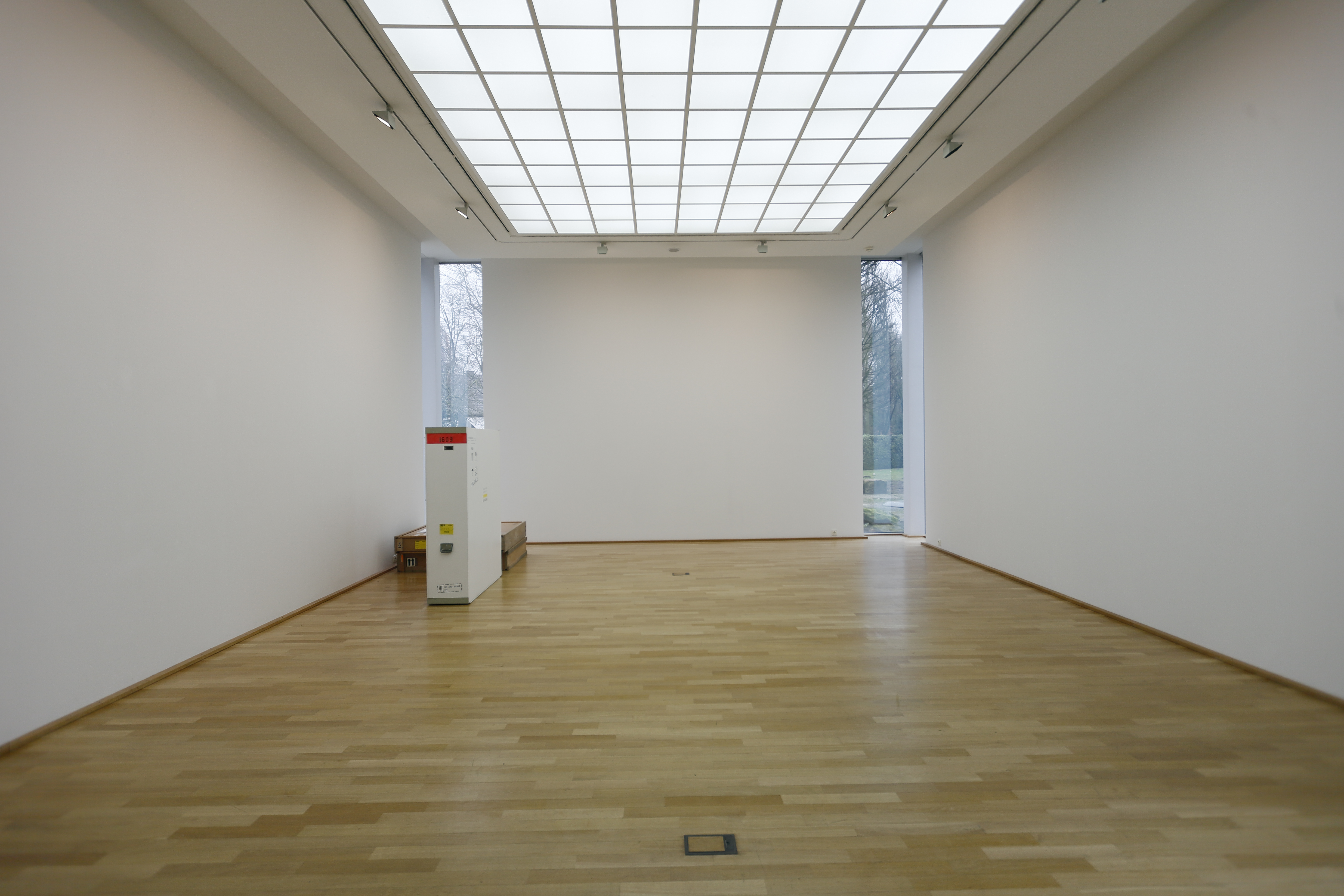 Kunstmuseum Ahlen, new building, groundfloor